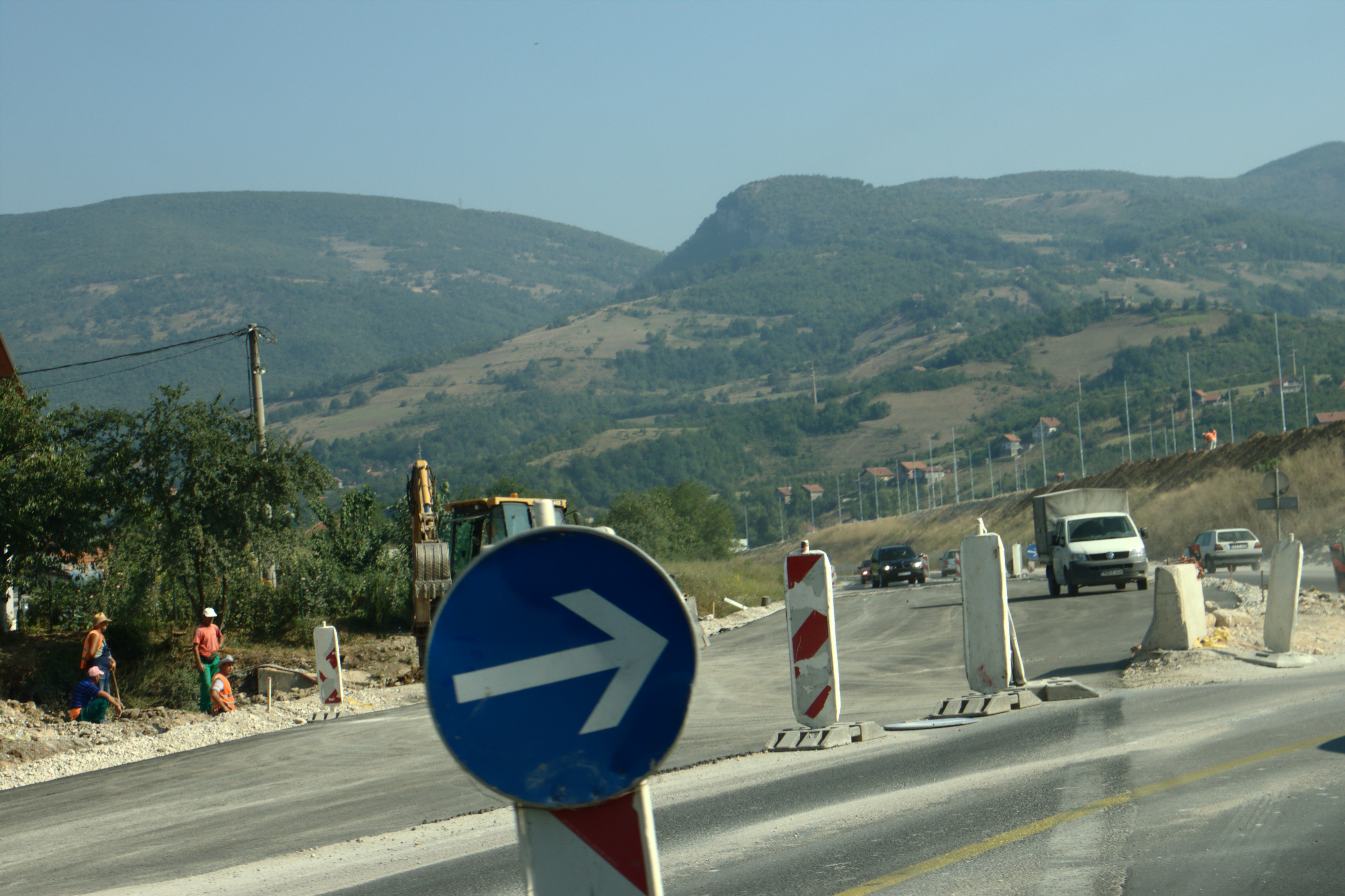 A1 highway under construction near Zenica, BiH